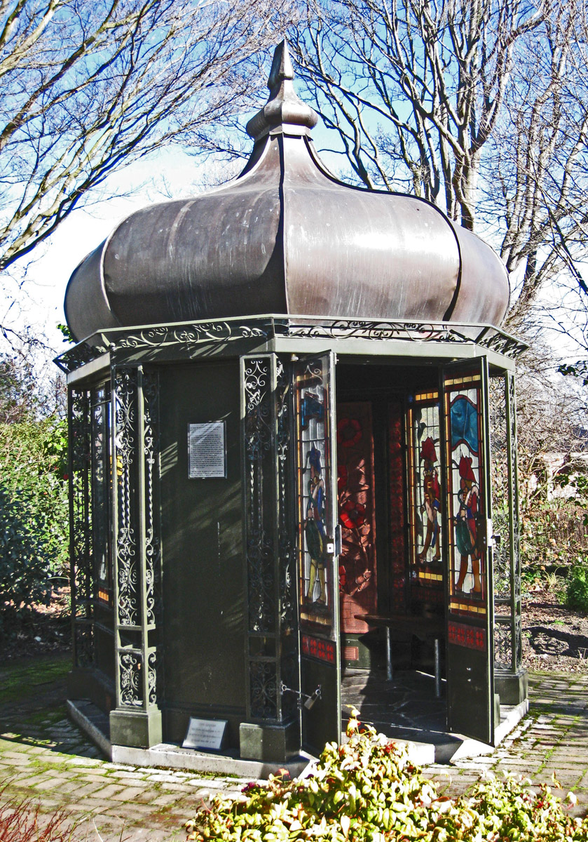 External view of the Mona Vale gazebo.